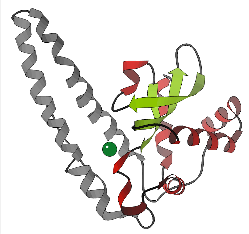 Ribbon schematic highlighting the second domain of the human mitochondrial Mn superoxide dismutase (SOD2) subunit. The Mn is in dark green and domain1 is in gray. Made in KiNG from PDB 1n0j.